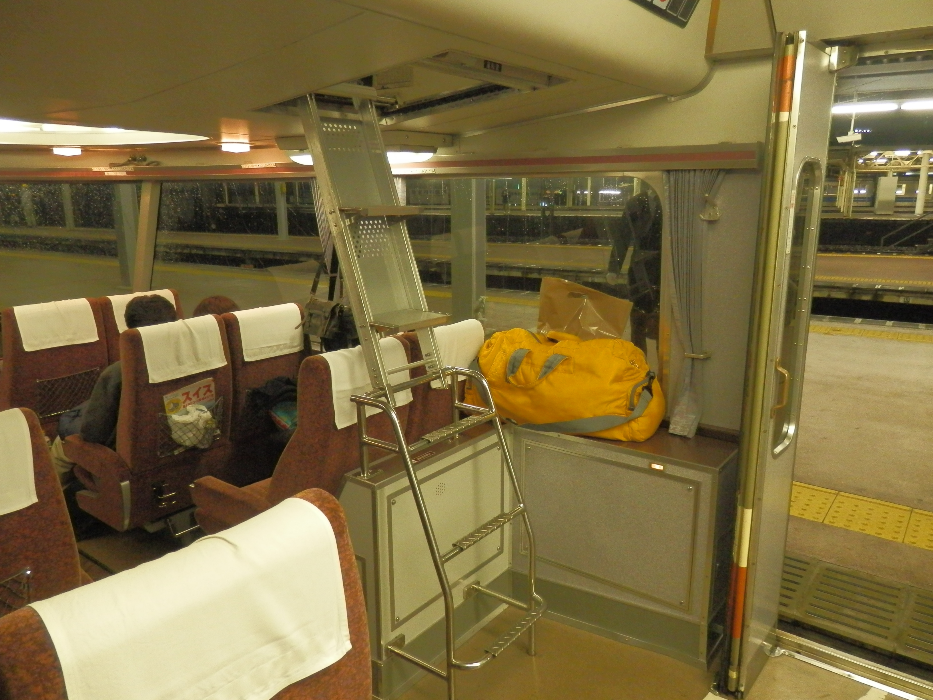 Ladder of Odakyu Elecrtic Railway type 7000.